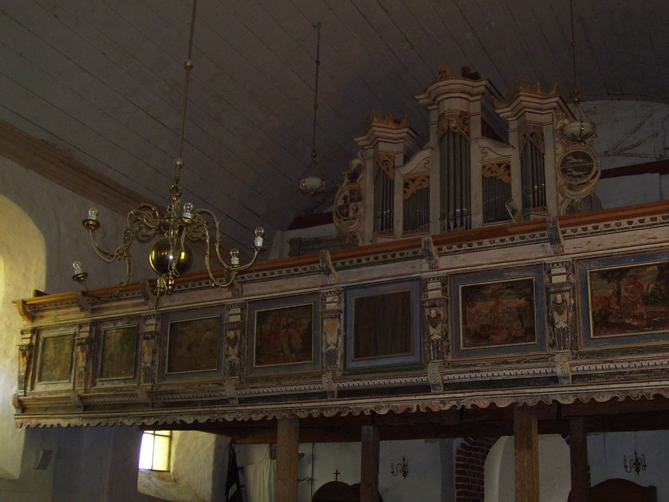 The church in Mołtajny, the organ